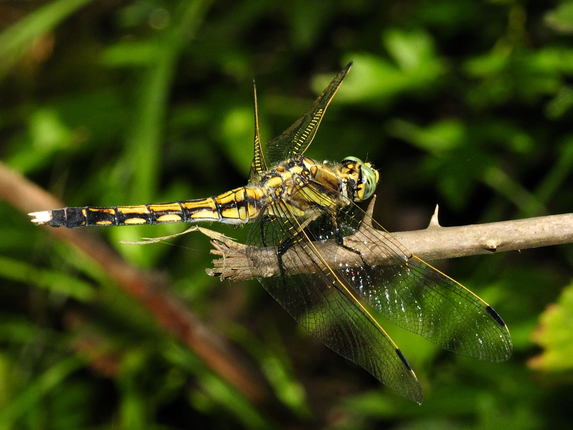 Young female of Orthetrum albistylum in the Ajameti Managed Nature Reserve (Georgia)